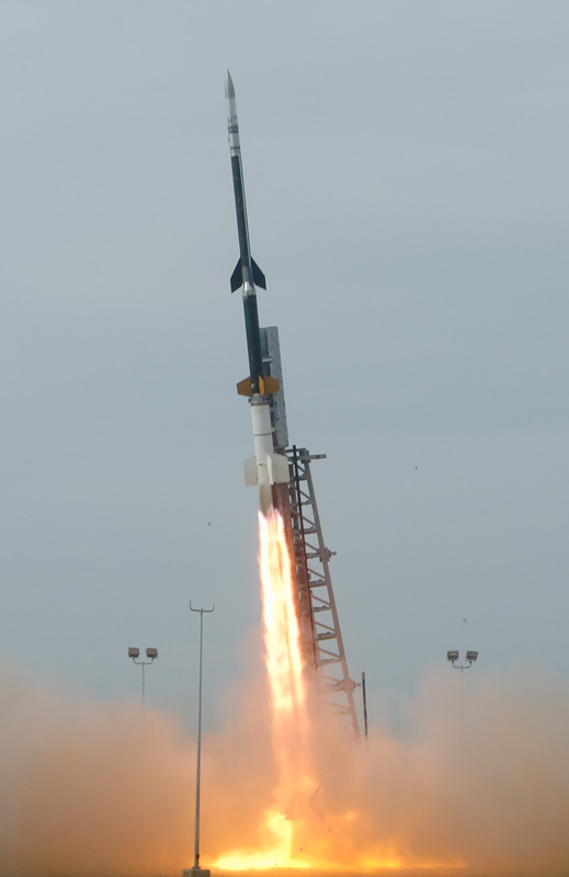 The Black Brant XI is a three stage sounding rocket. Its stages are Talos for first stage, Taurus for second stage, and a Black Brant V for third stage.